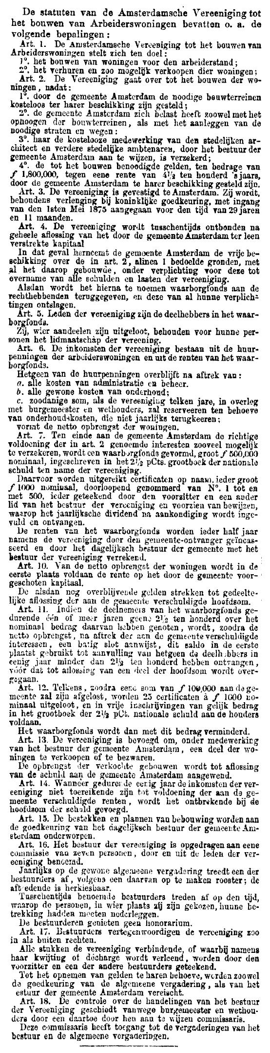 Articles of association of "Amsterdamsche Vereeniging tot het bouwen van Arbeiderswoningen"; copy from Dutch paper Algemeen Handelsblad june 29th 1875.